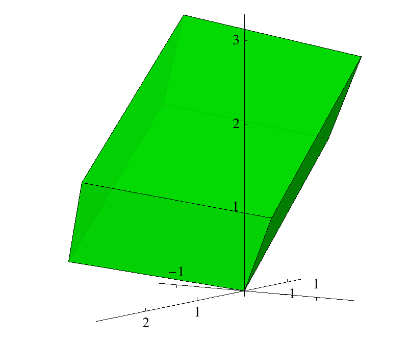 A fundamental domain of the maximal order of the field K obtained by adjoining to Q a root of f(x) = x3 − x2 − 2x + 1. This field is a Galois extension of degree 3. Its discriminant is 49=72. Accordingly, the volume of the fundamental domain is 7. A basis for its lattice is (approximately) {(1,1,1),(−1.2469796037,0.4450418679,1.8019377358),(1.8019377358,−1.2469796037,0.4450418679)}. Computed using PARI/GP. Plotted using Mathematica.